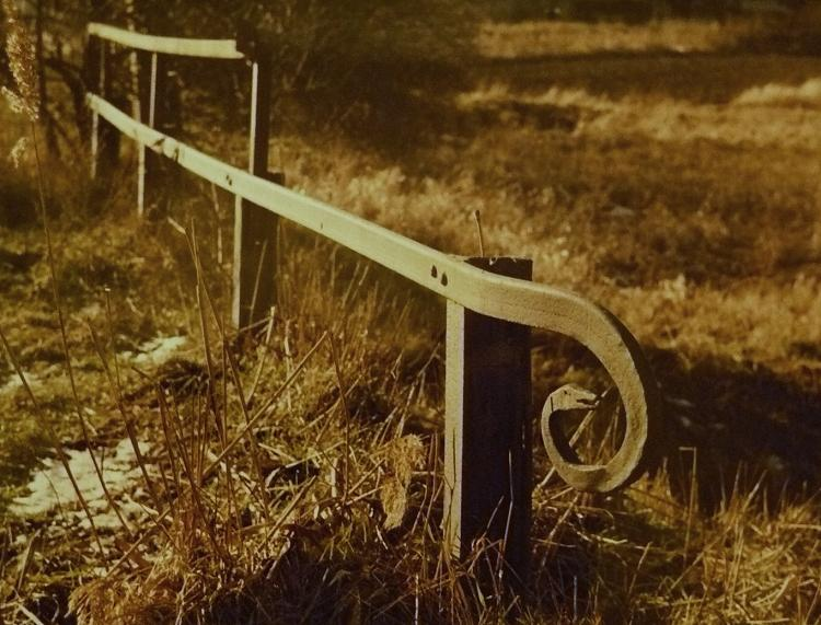 Poznan - Strumien Junikowski River Bridge in Rudnicze-part (1993).